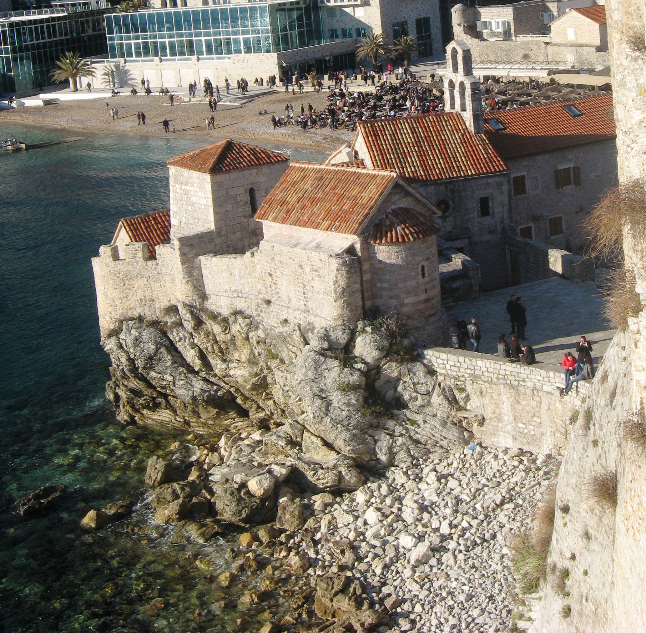 Church of St. Maria in Punta and church of St. Sava - Budva (Montenegro)